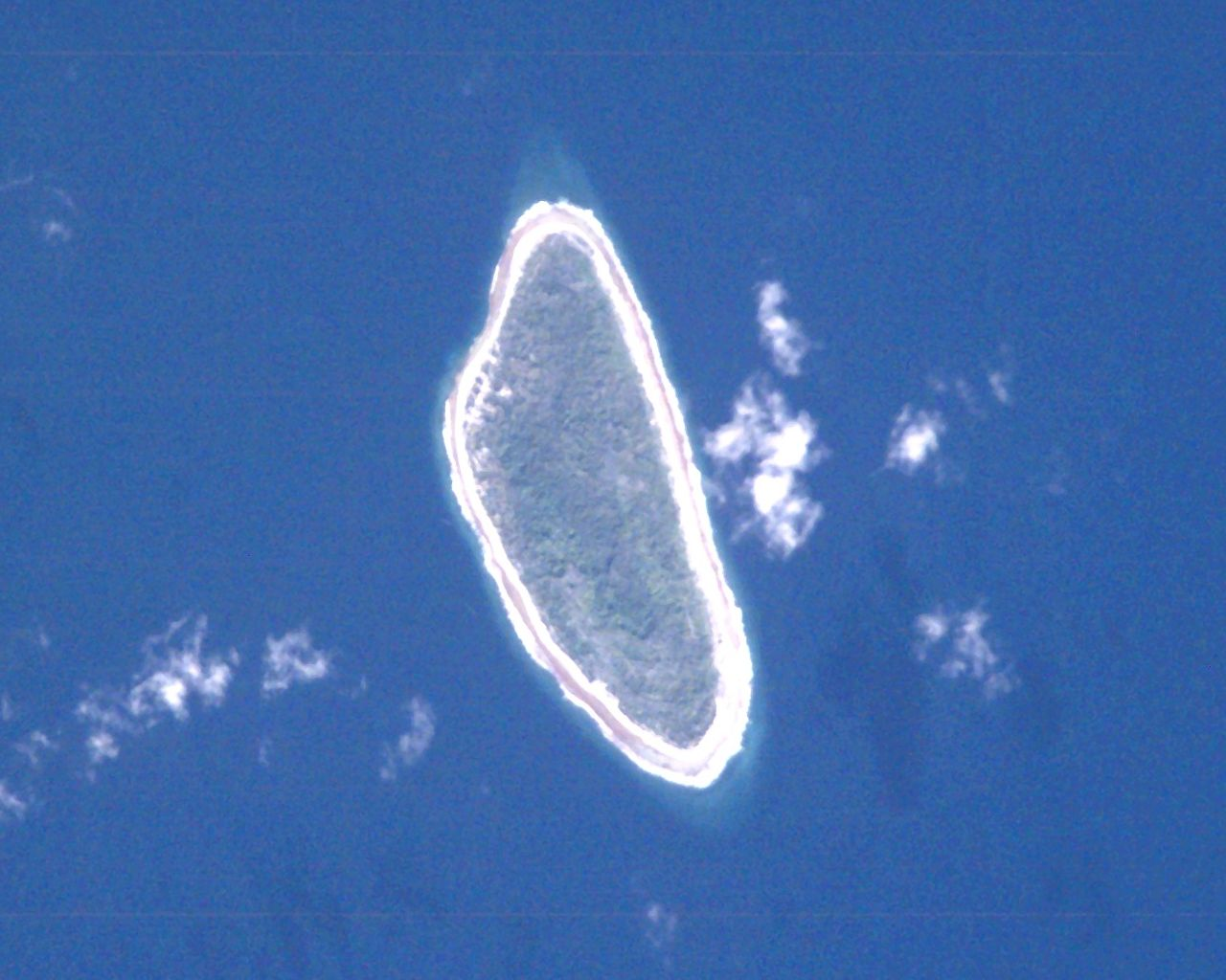 NASA astronaut image of Tepoto North Island (Tuamotu Archipelago, French Polynesia) in the Pacific Ocean